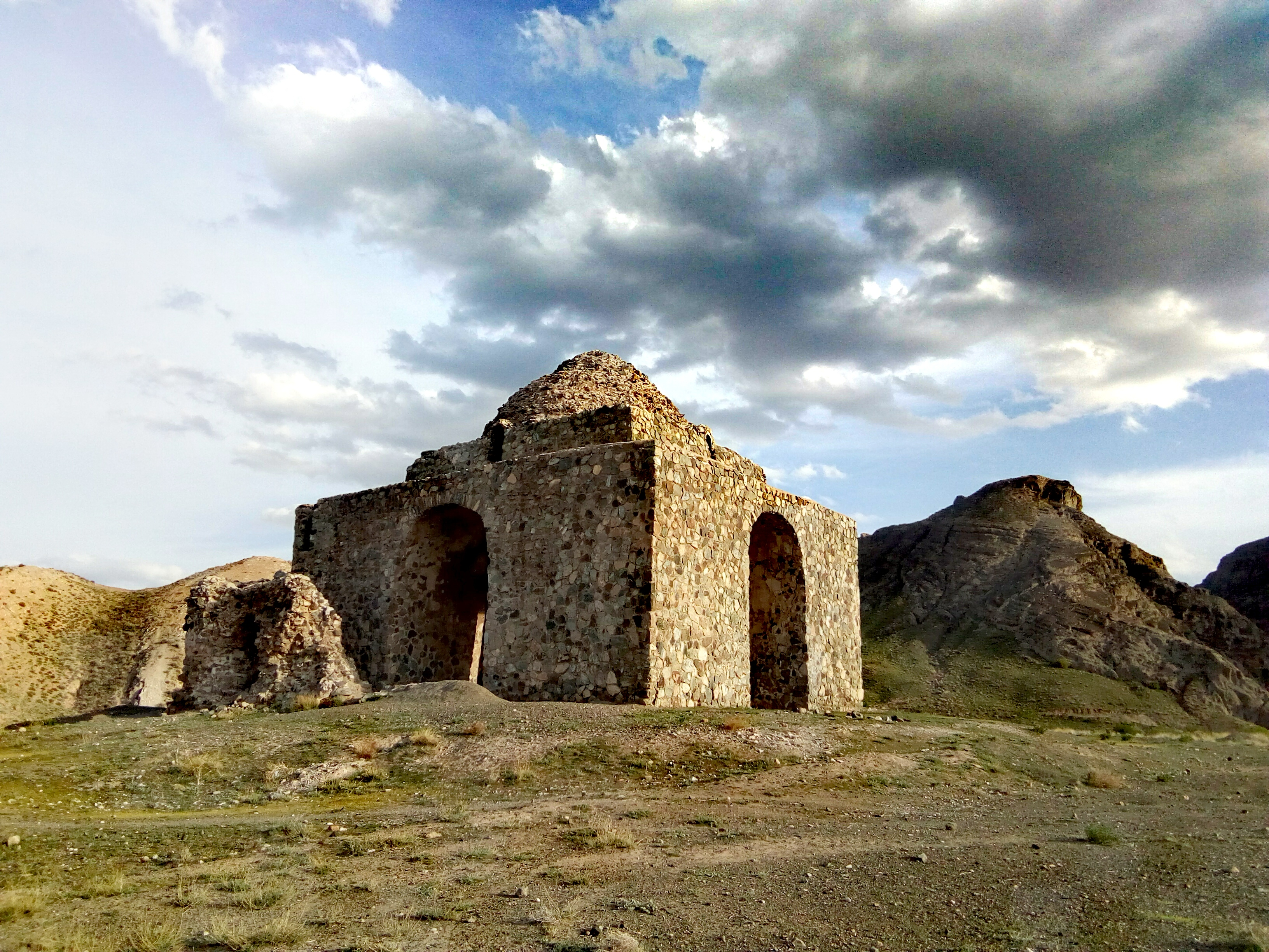 Baze Hoor fire temple. Bazehoor means the gate of sun ( Baz= gate, hoor= sun). this temple belong to 2500 years ago. Bazehoor is the oldest four arched in the world, and is built at Parthian dynasty. In front of this building there is a castle above a mountain that is called ghale dokhtar va pesar (= girl and boy castle).